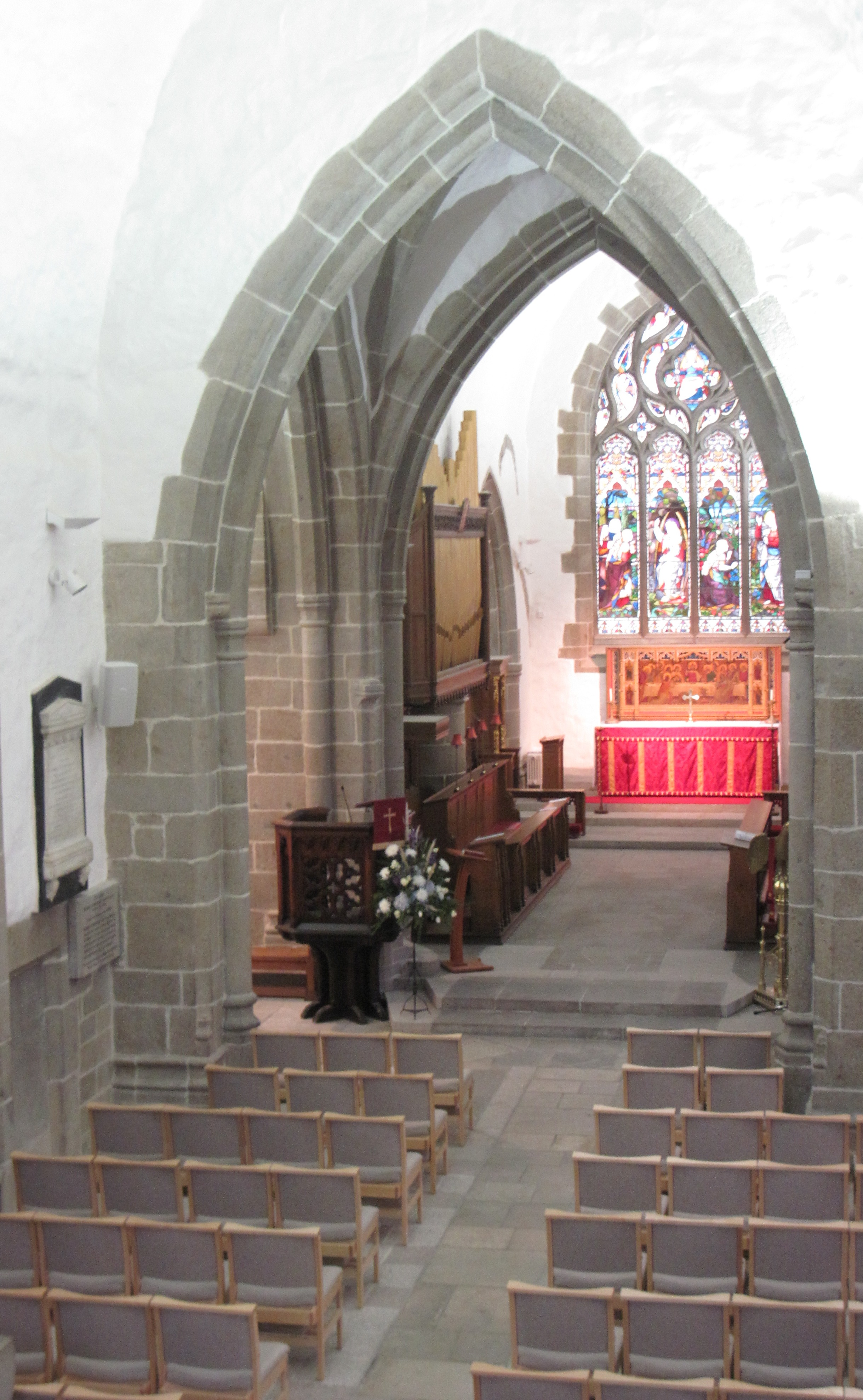 Parish Church of Saint Helier, Jersey Nrf: Églyise dé Saint Hélyi, Jèrri